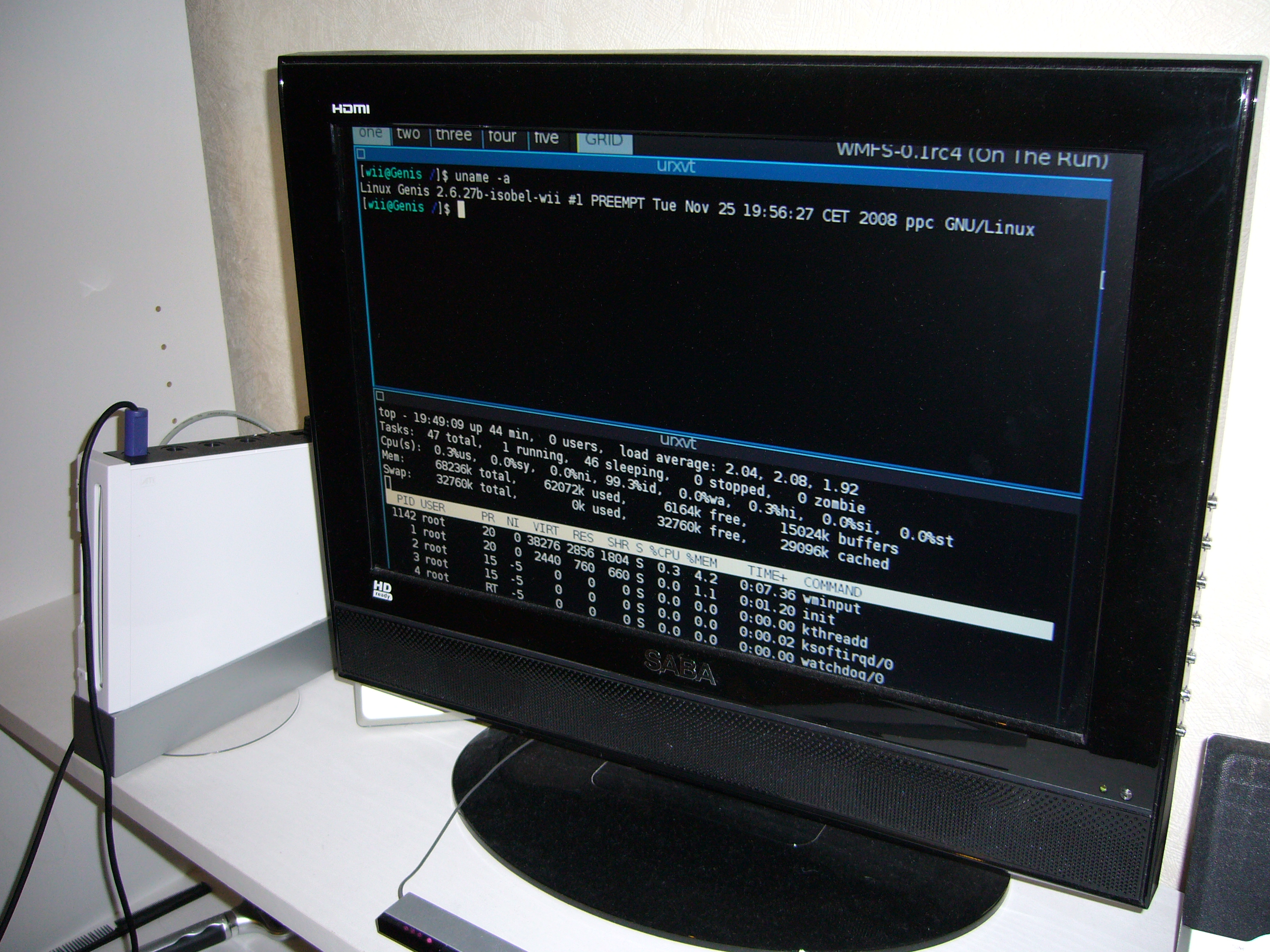 WMFS on Wii